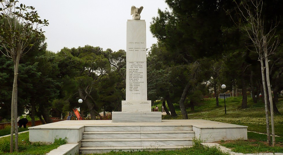 The above picture depicts the Penteli fallen residents momument.